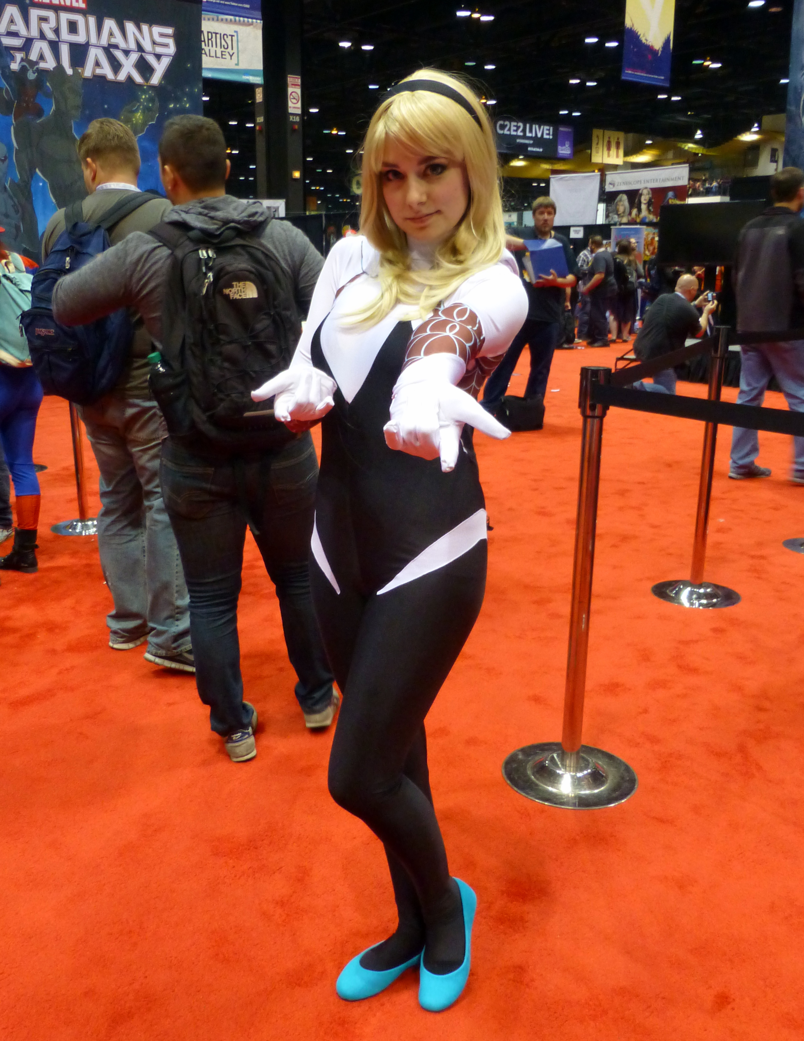 Cosplay of Spider-Gwen at Chicago Comic & Entertainment Expo (C2E2) 2015.